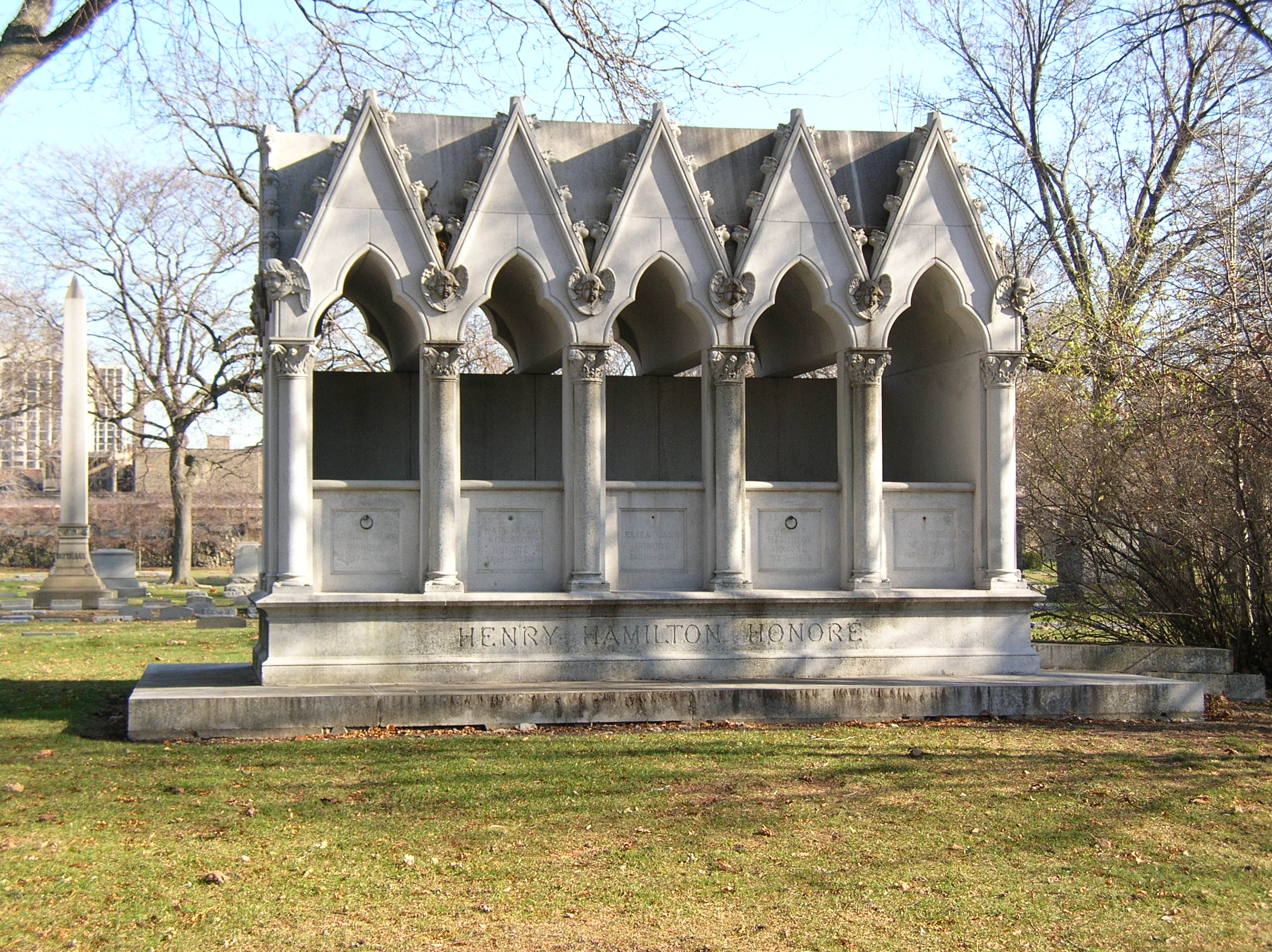 Family crypt of Henry Honore family